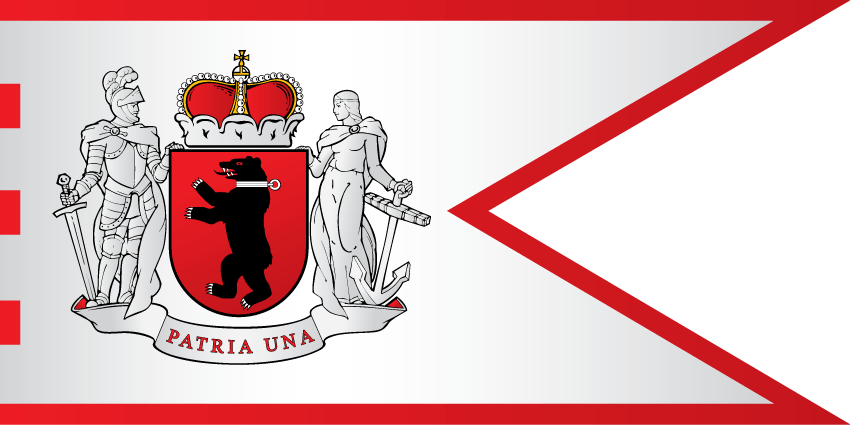 Flag of Samogitia